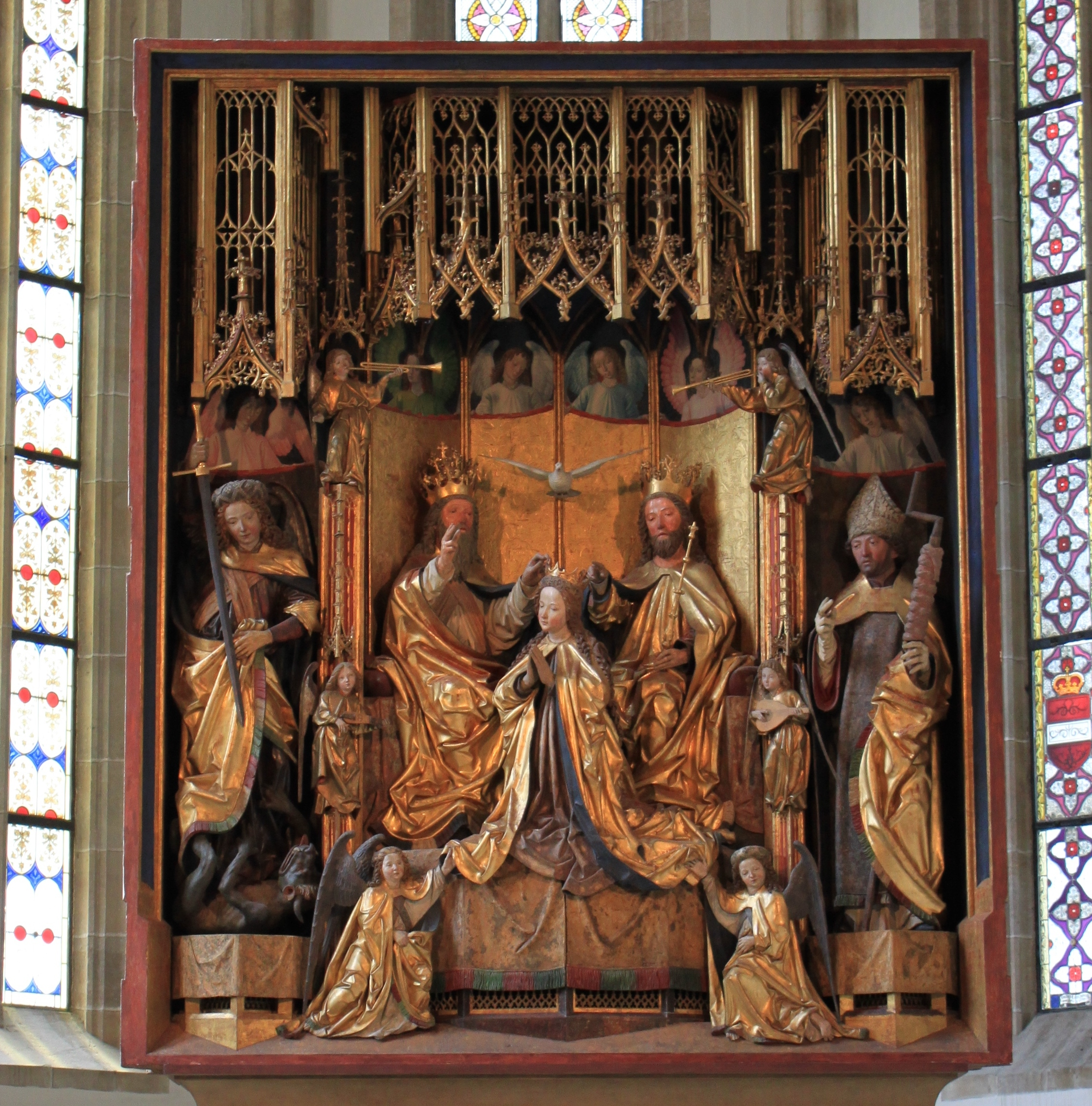 Altar of Michael Pacher in the Old Parish Church of Gries in Bozen Bolzano South Tyrol